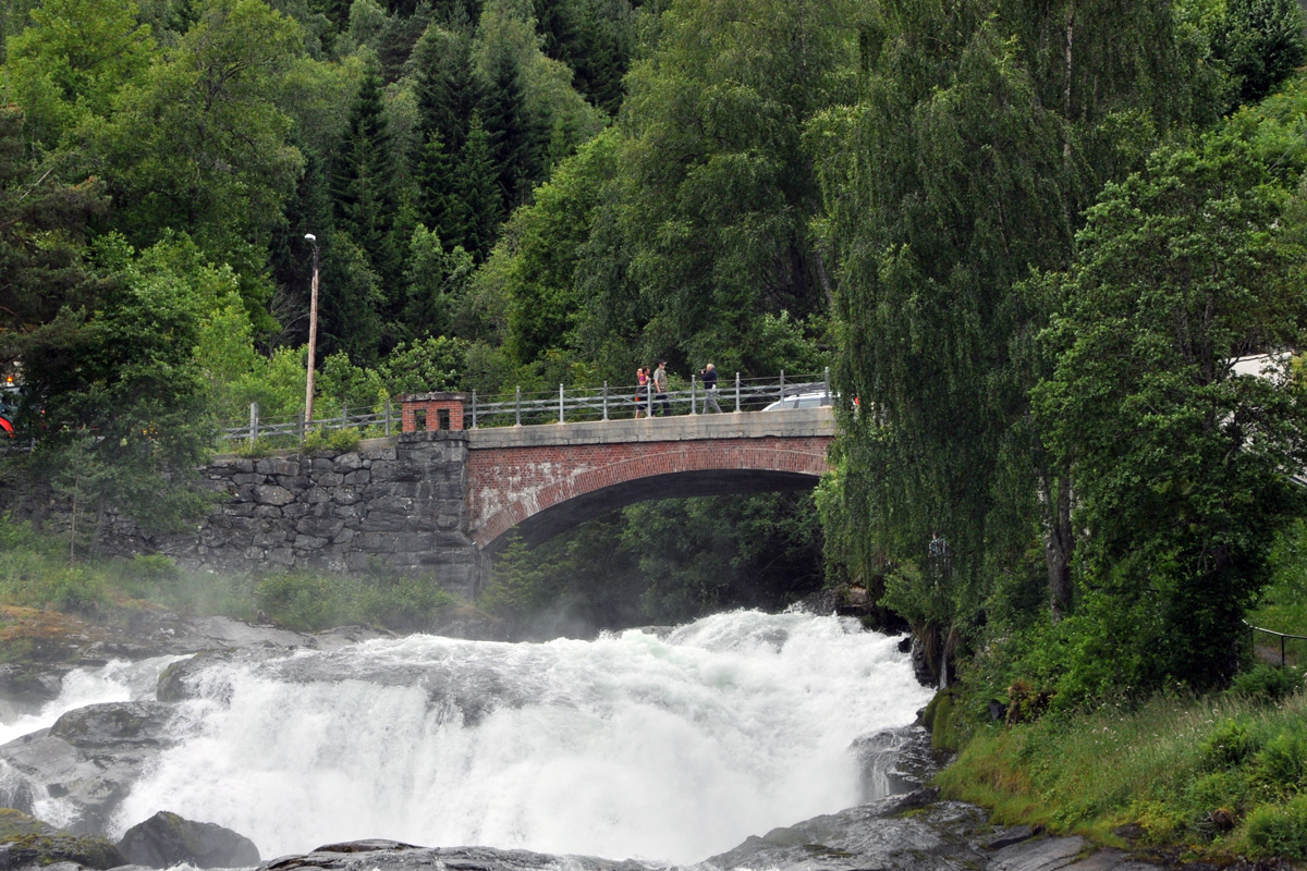 The Høgebridge with the Hellesylt waterfall in foreground.